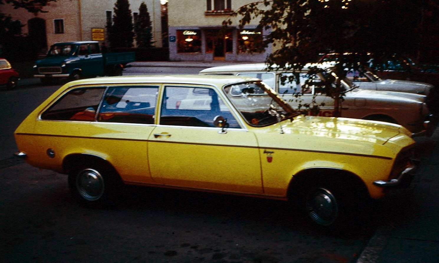 Opel Ascona A Caravan parked by a competitor VW Variant